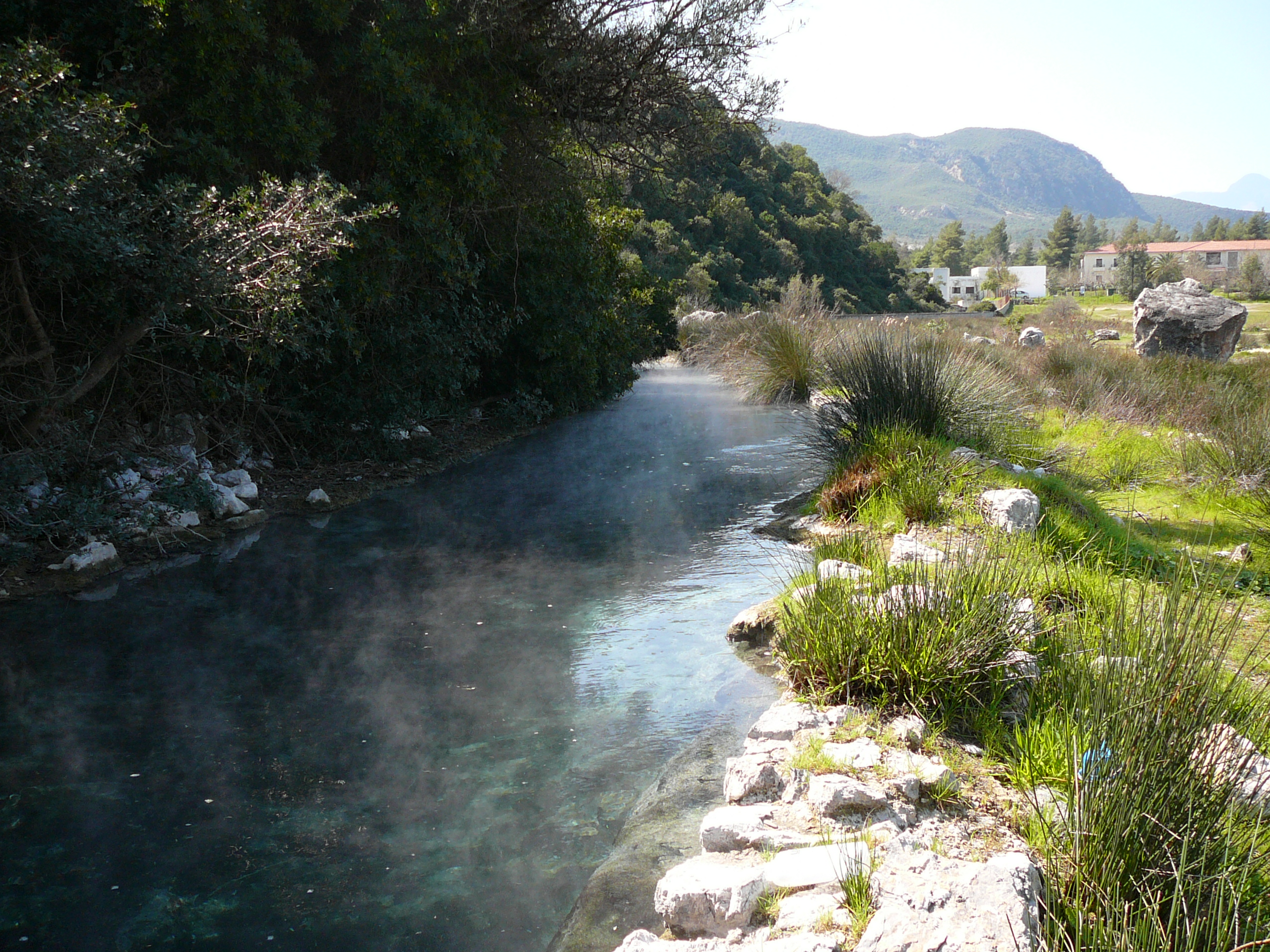 Thermopylae derives half of its name from its hot springs. This river is formed by the steaming water which smells of sulfur. In the background, you can see buildings of the modern baths. In ancient times the springs created a swamp.